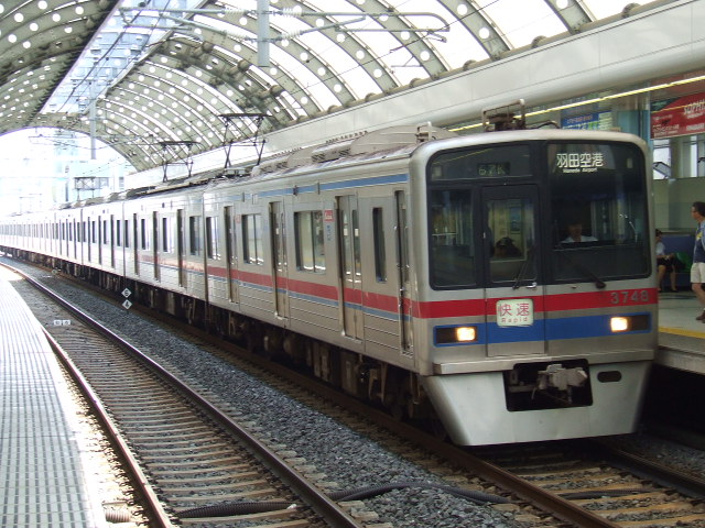 Keisei 3300 series second production (Taken at Keisei Funabashi Station)